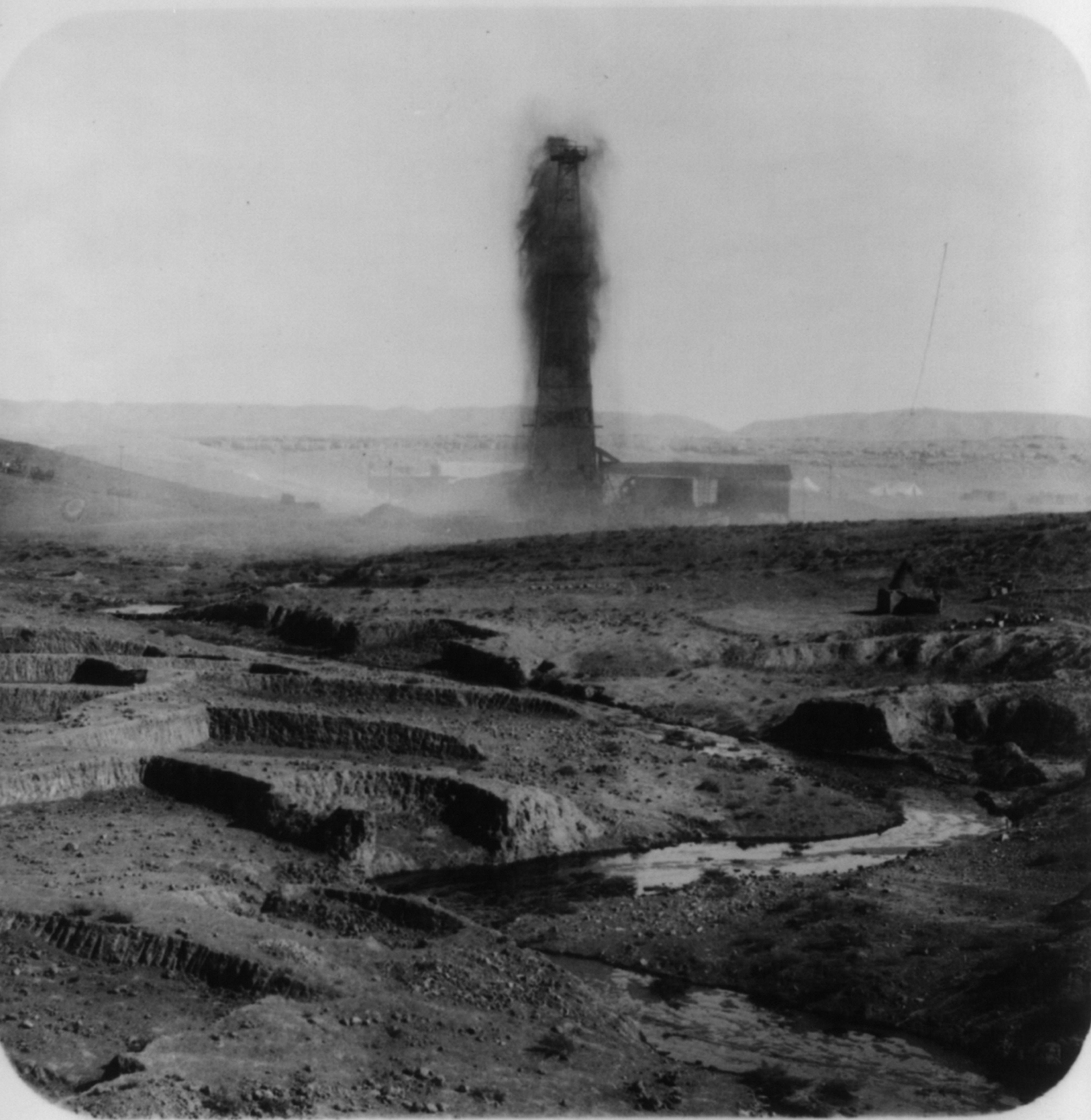 Kirkuk district, oil gusher spouting circa 1932.